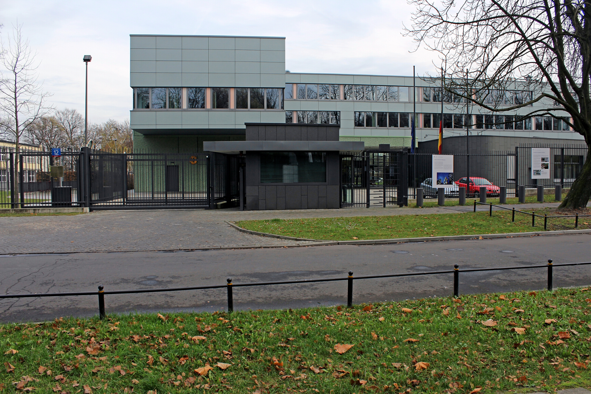 Wer dieses Bild benutzen möchte, der möge bitte den Link auf seiner Seite einbinden. If you want to use this picture, please implement the link on the website containing the picture.